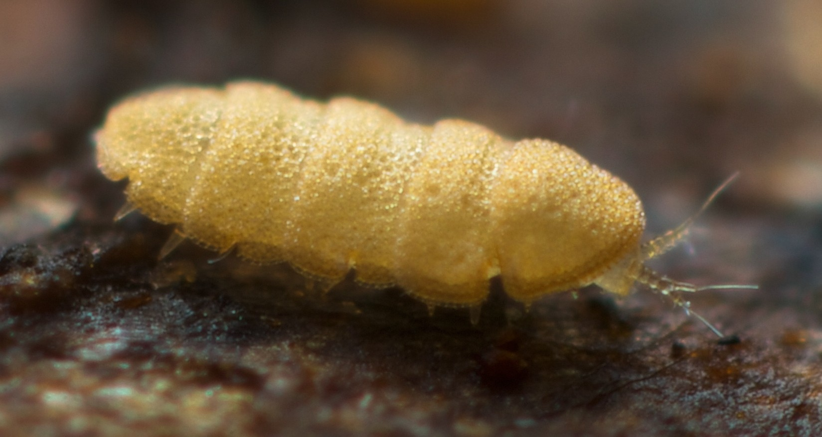 An eurypauropodid arthropod (Pauropoda: Eurypauropodidae)